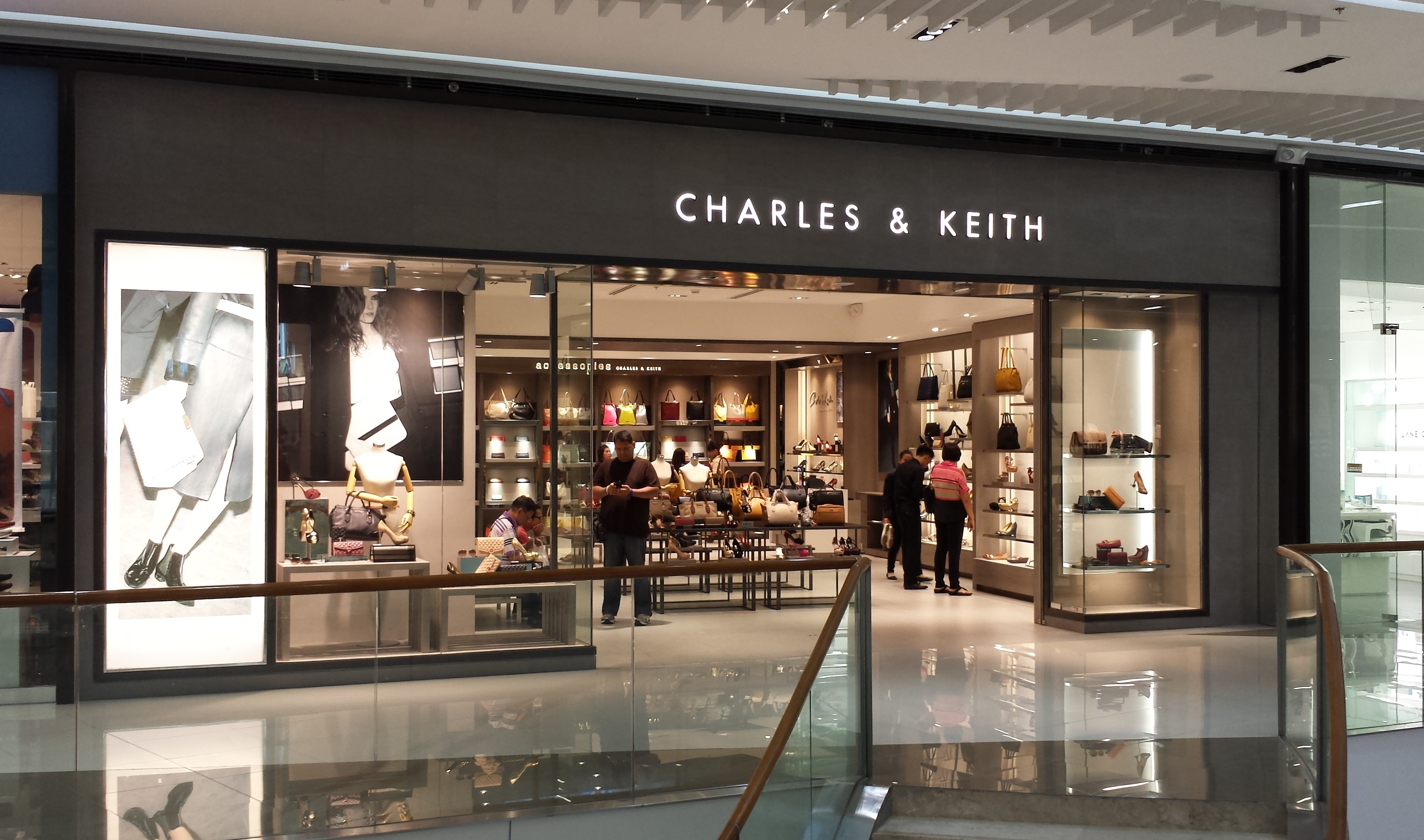 A Charles & Keith store in the mall SM Aura Premier in Bonifacio Global City, Metro Manila, Philippines.